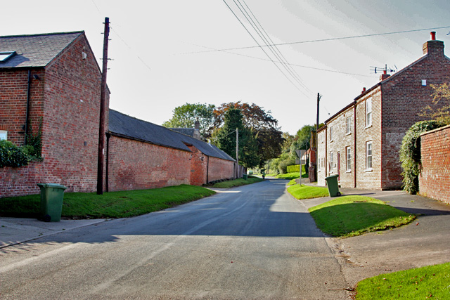 Main Street, Tibthorpe, East Riding of Yorkshire, England.Looking west, a little way down from the crossroads.